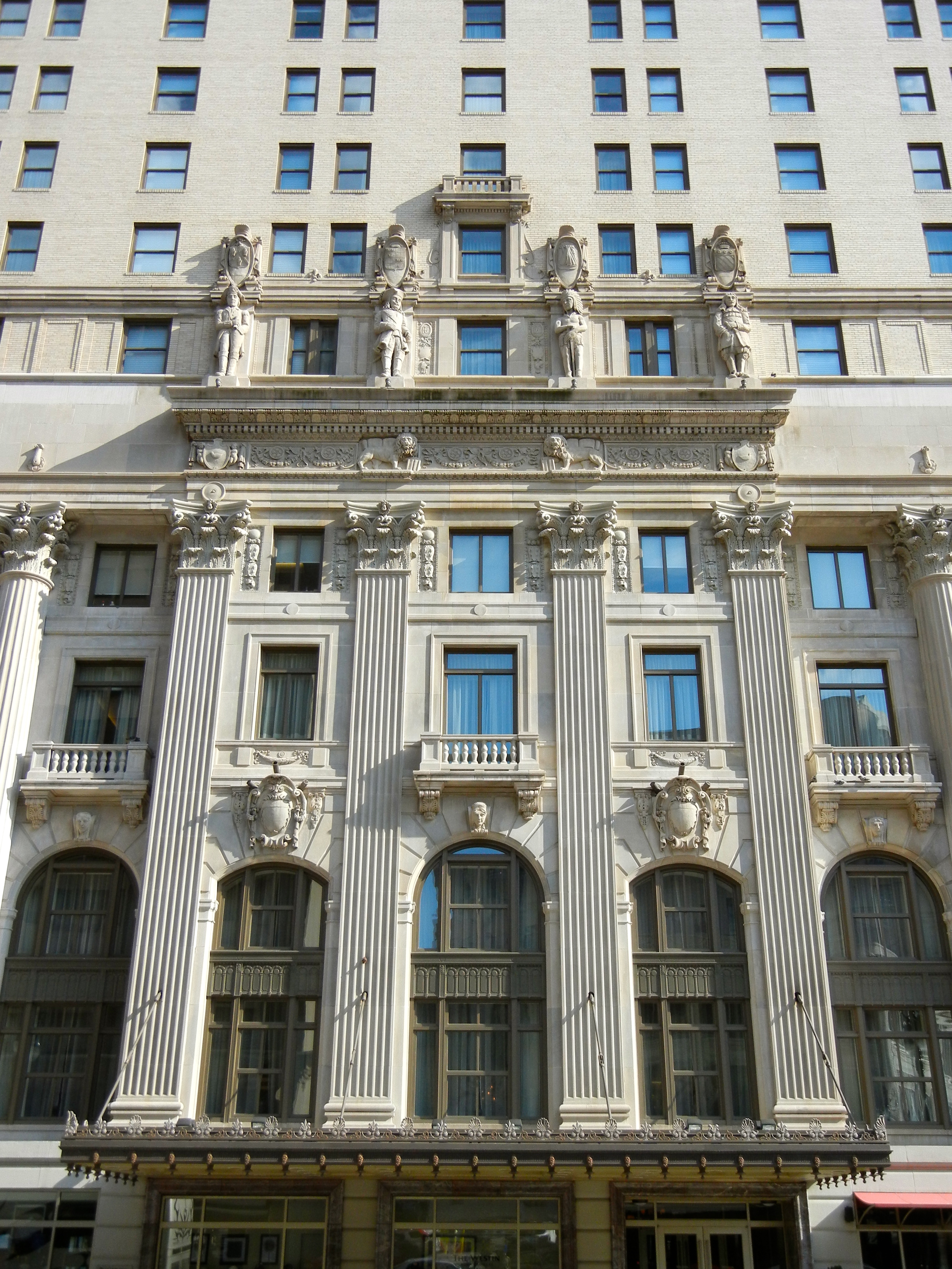 Washington Boulevard Historic District